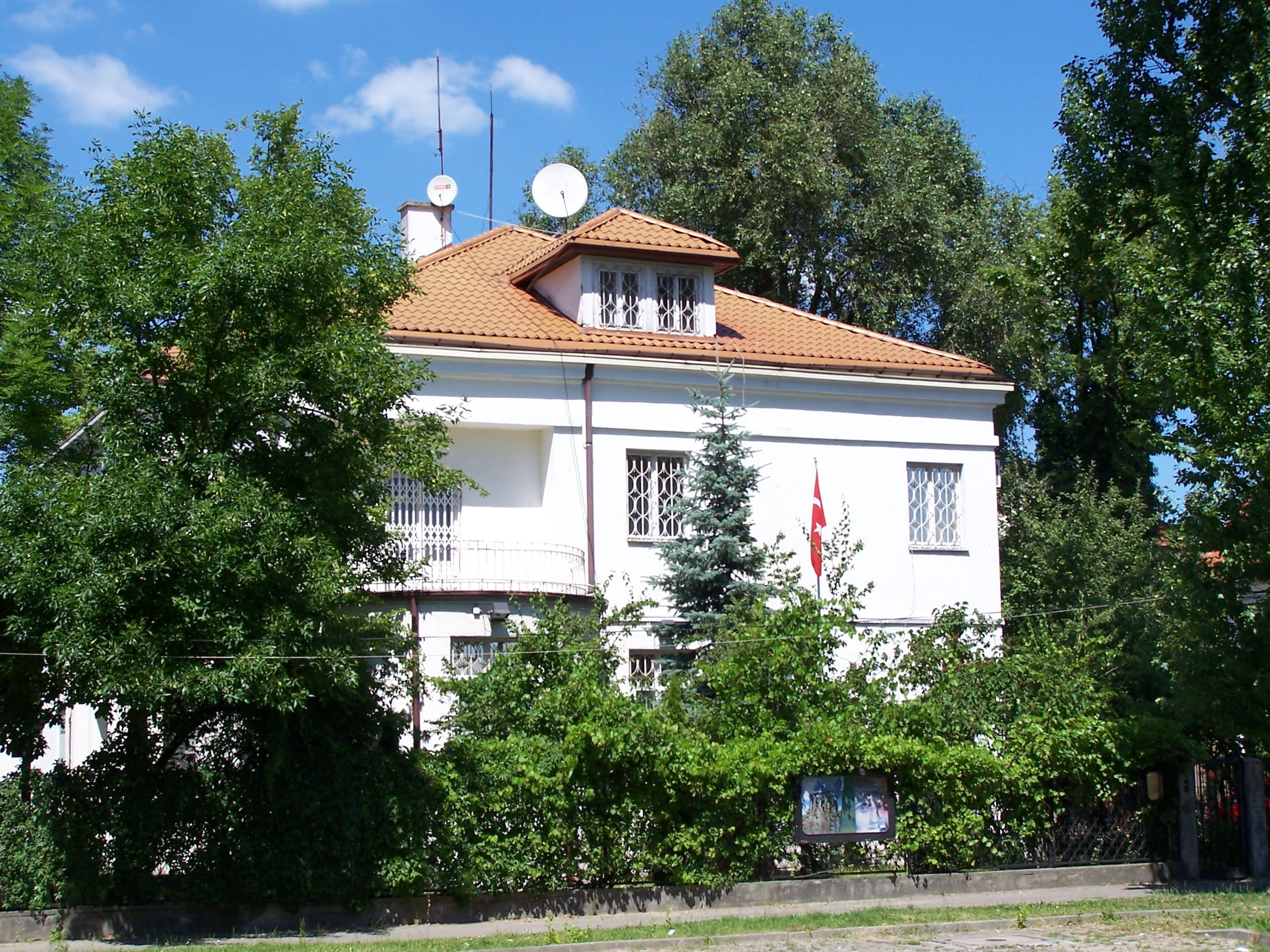 Residence of the Embassador of Turkey in Warsaw, Poland